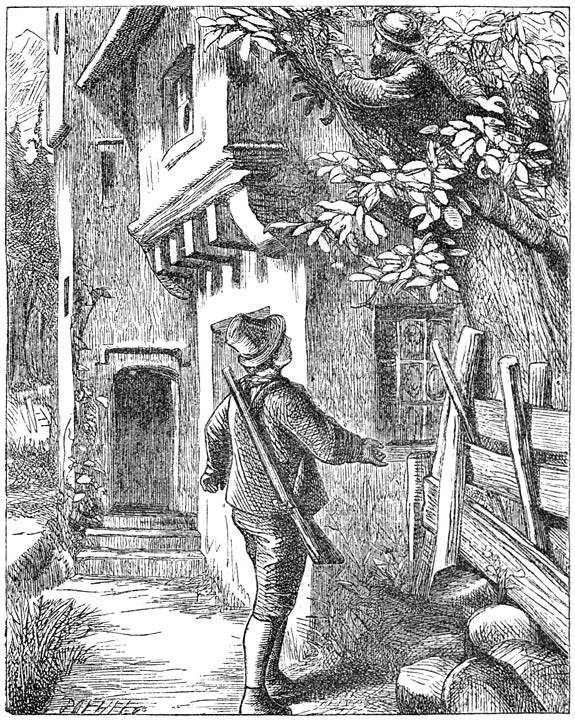 From 'Andersens Sproken en vertellingen' by Hans Christian Andersen, Titia van der Tuuk (ed.) and Simon Jacob Andriessen (trans.). Gebroeders E. & M. Cohen, Nijmegen - Arnhem. Illustrated by Alfred Walter Bayes (1832-1909) and engraved by the Dalziel Brothers (Edward Daziel, 1817-1905; George Daziel, 1815-1902).